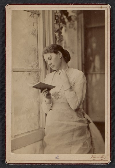 Fratelli Vianelli, Maria Oakey Dewing, between 1875 and 1885, Thomas Wilmer Dewing and Dewing family papers, Archives of American Art, Smithsonian Institution.